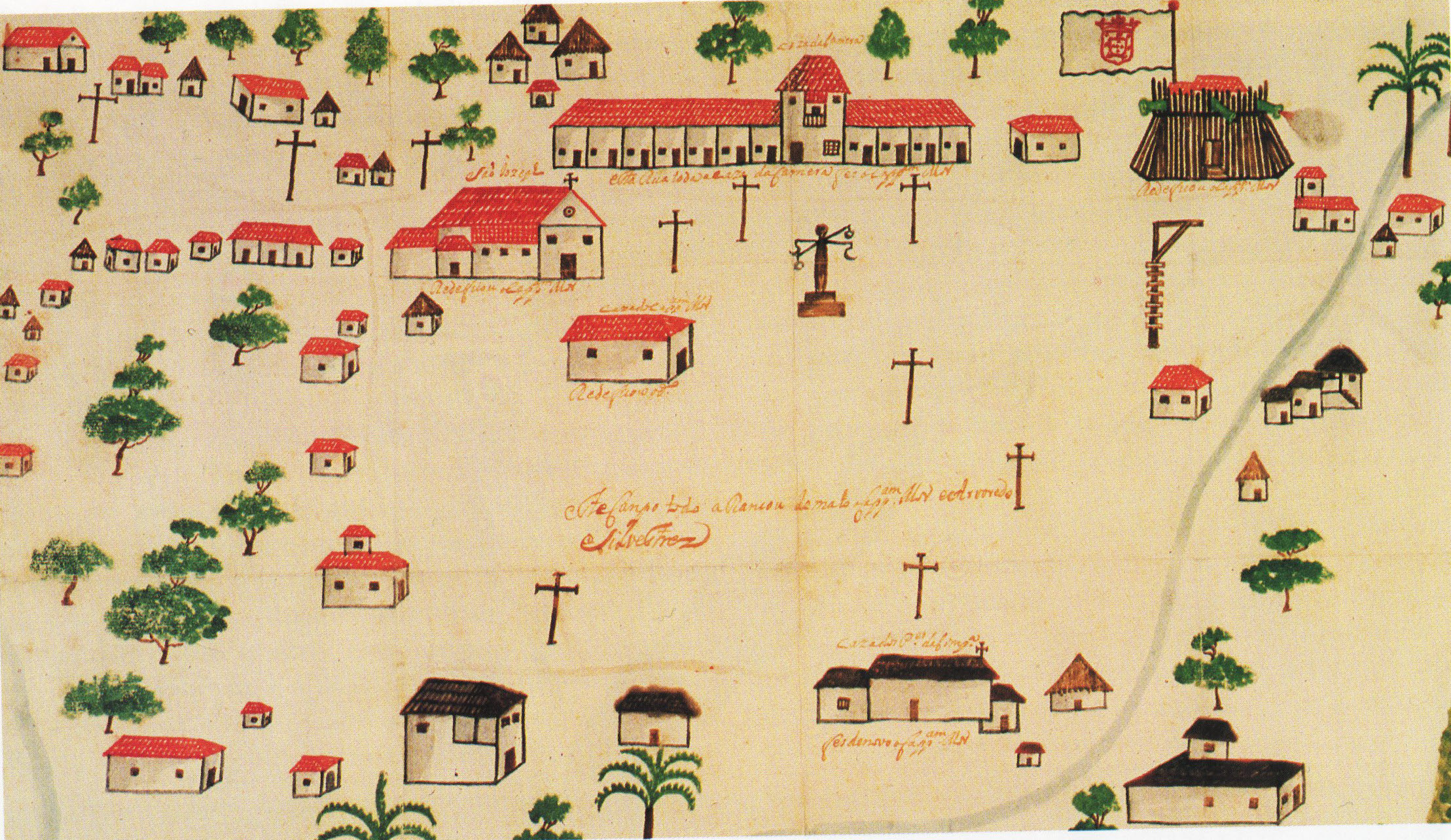 Fortaleza, c. 1730.